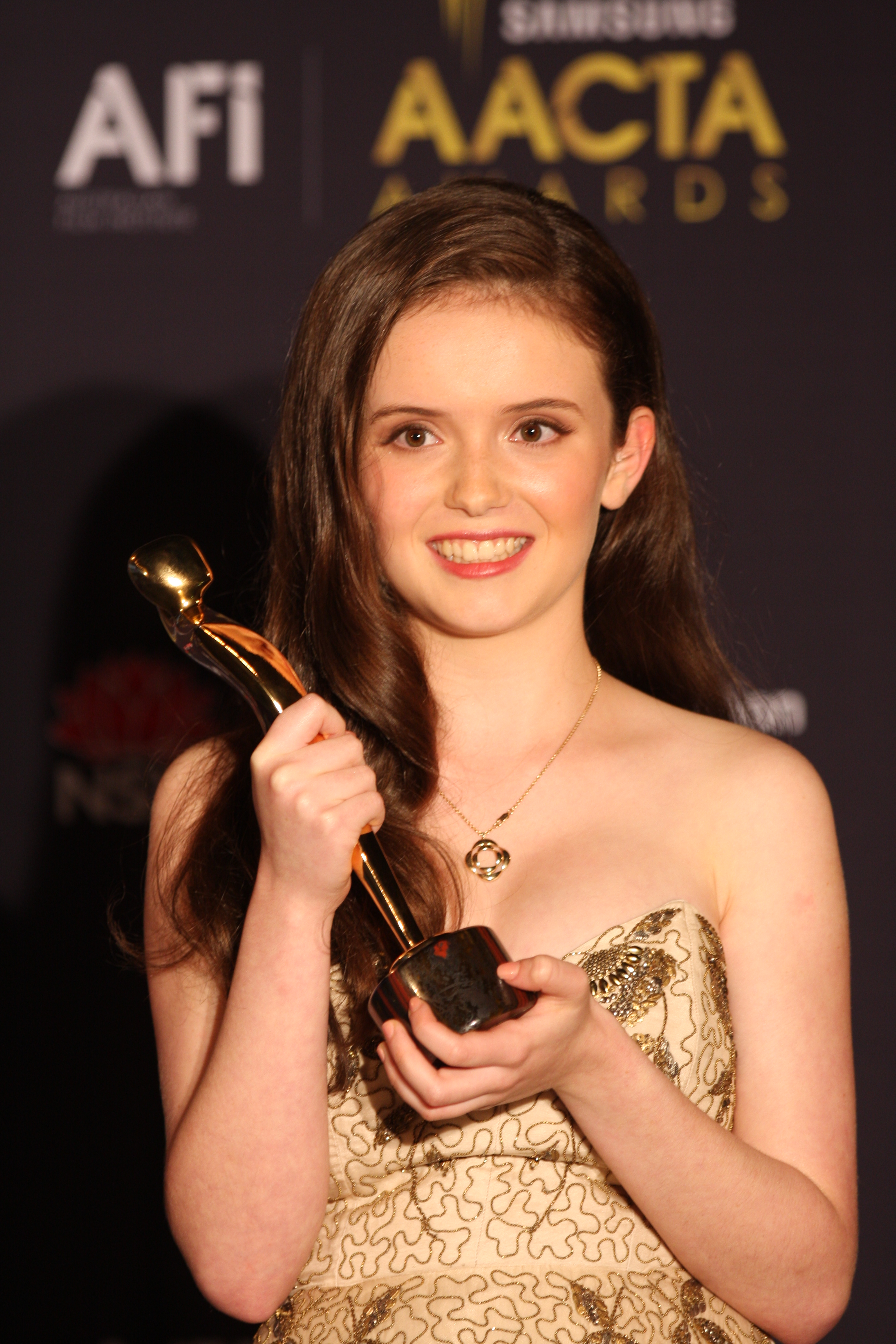 Australian actress Lara Robinson at the AACTA award 2012, Sydney, Australia